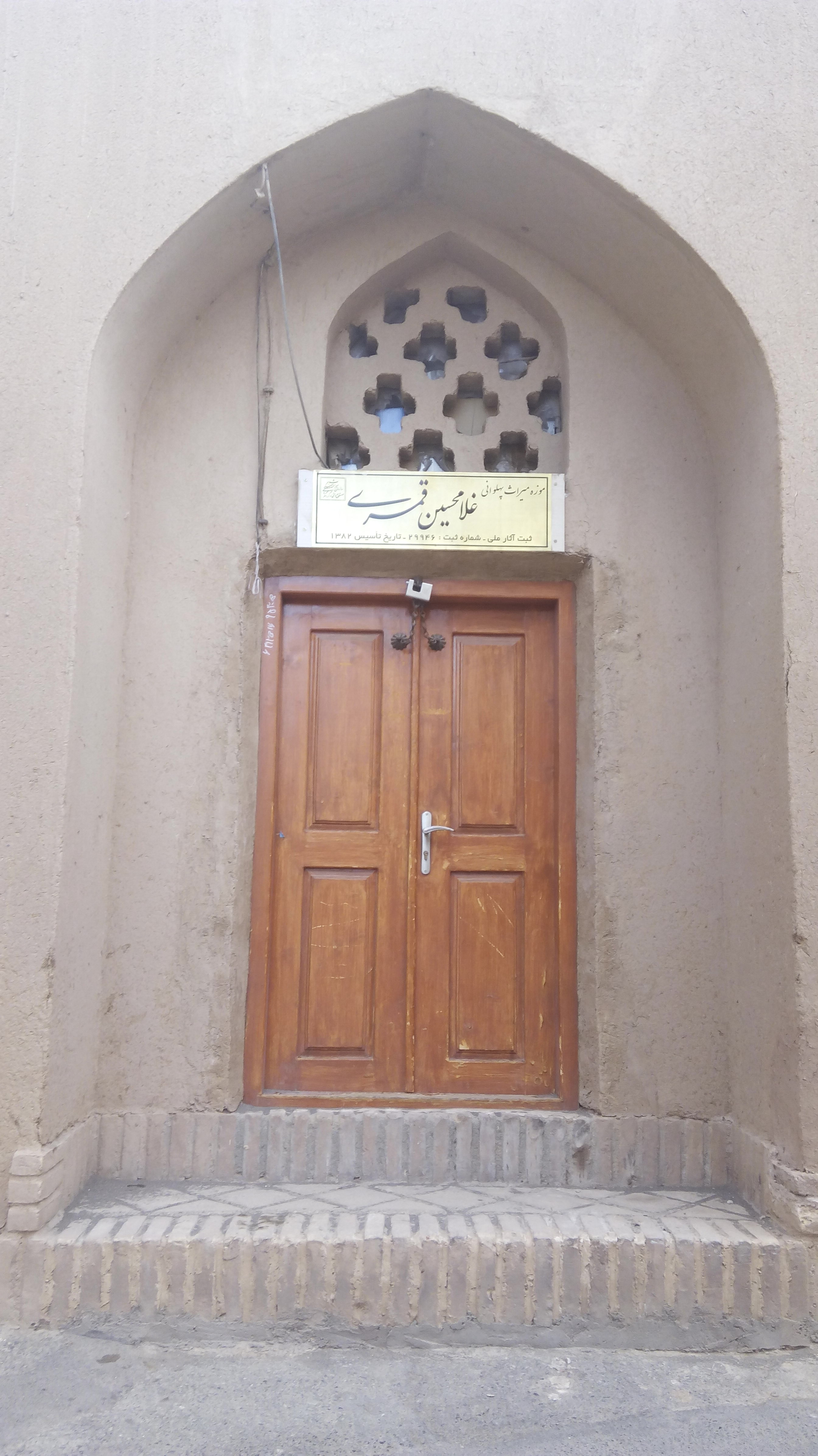 heritage heroes museum in birjand